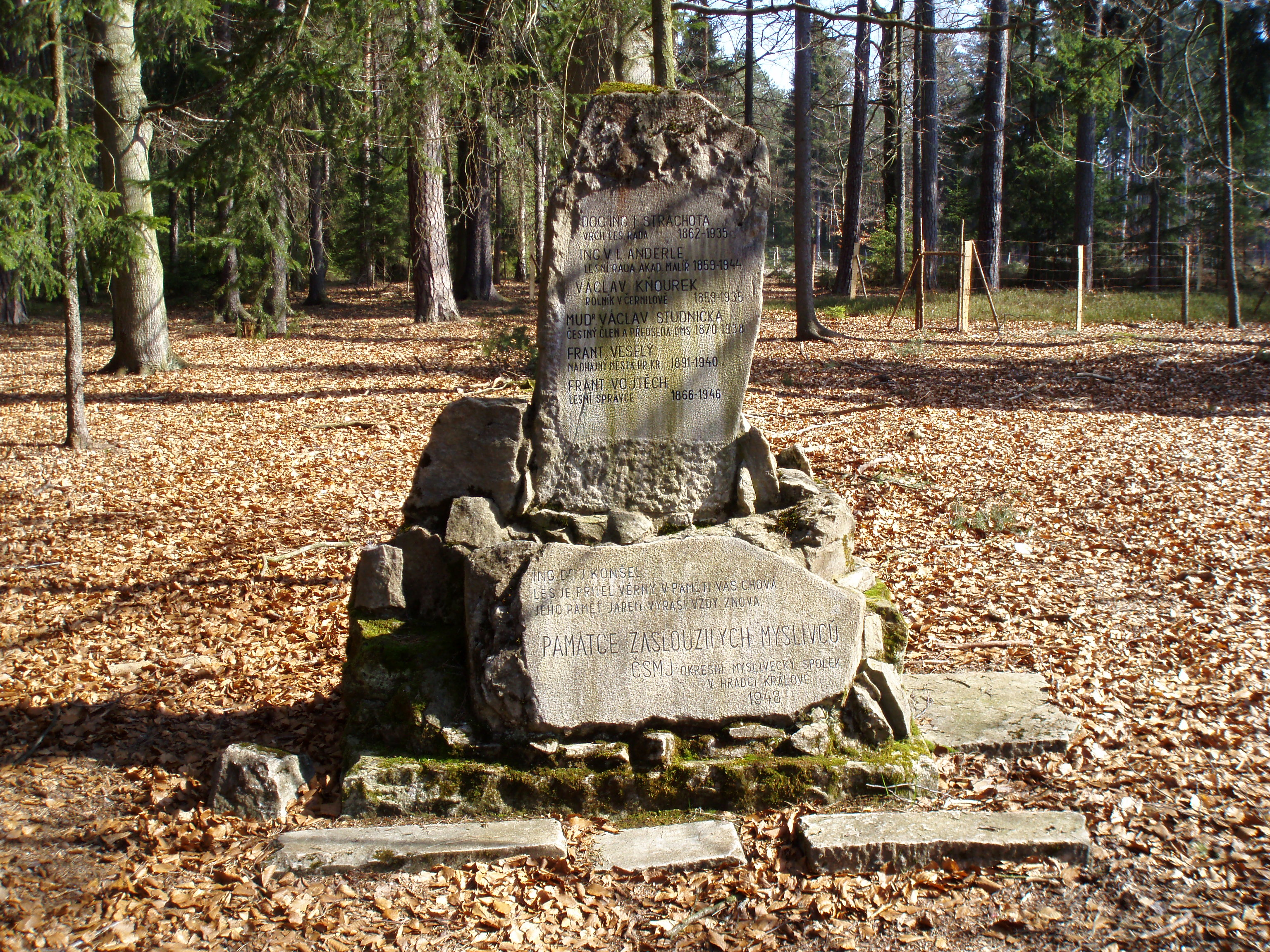 Memorial of Hunters (Hradec Králové)